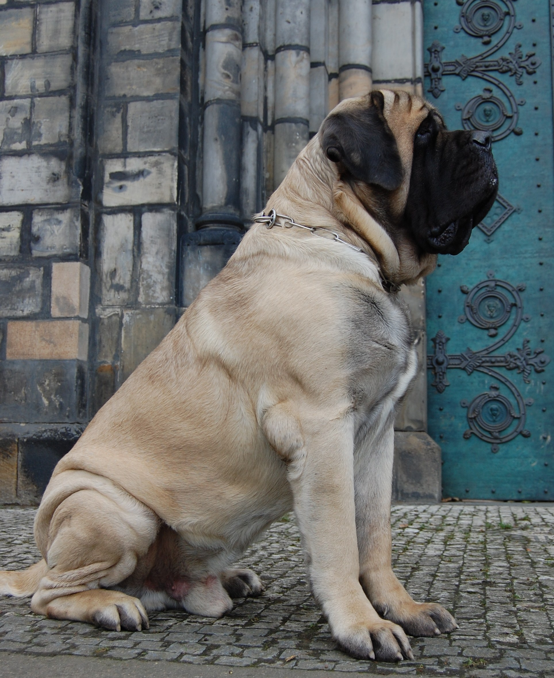 Westgort Anticipation